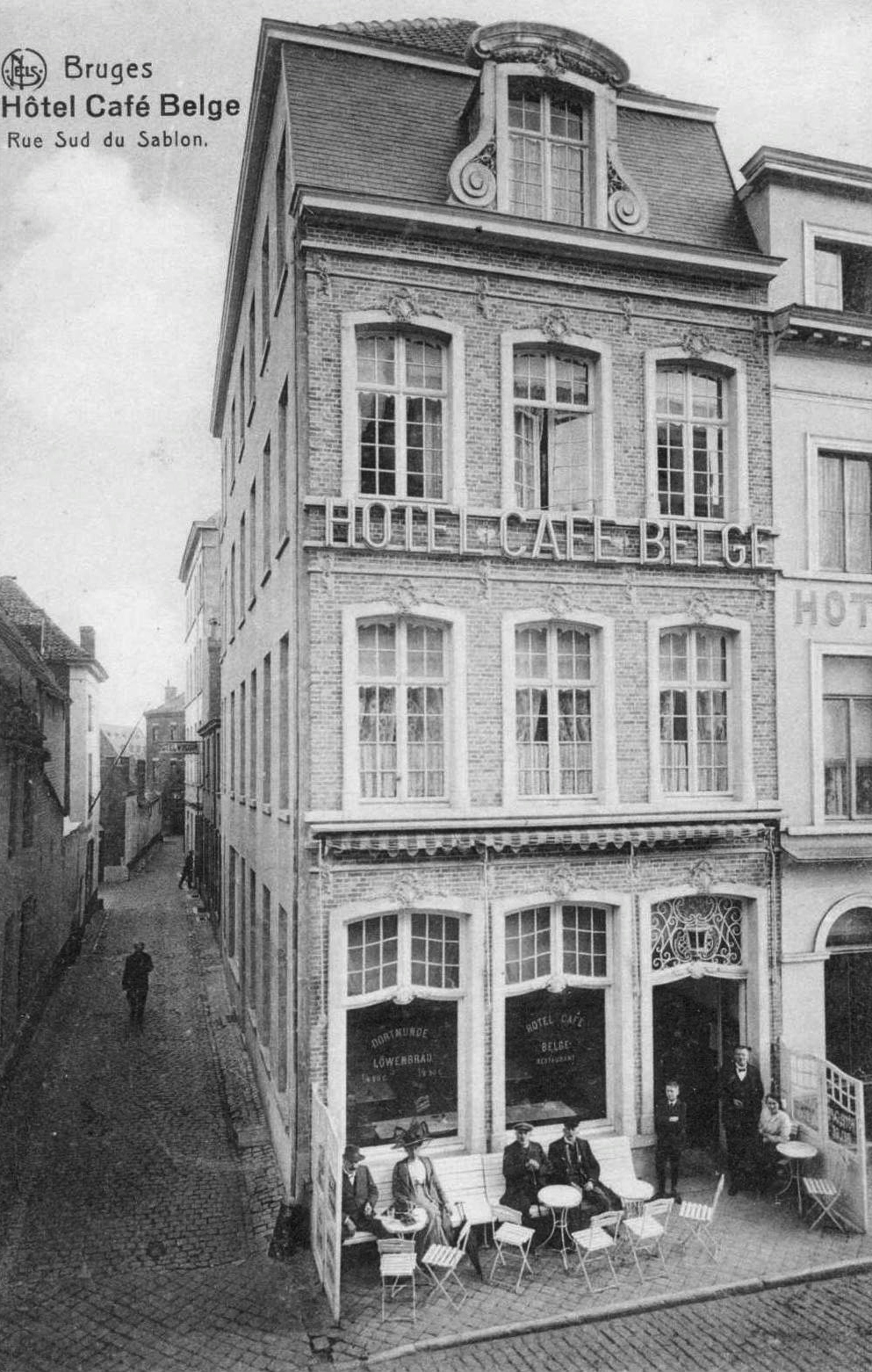 Old Nels postcard BRUGES : Hôtel Café Belge; Rue Sud du Sablon. Hôtel Café Belge, founded in 1808. Owner: Hasenbroekx-De Vos. Trade Register Bruges 3120. Zuidzandstraat 45, Bruges. In front of the door (from left to right): Albert Hasenbroekx, Frans Hasenbroekx, Odilla De Vos (sitting).